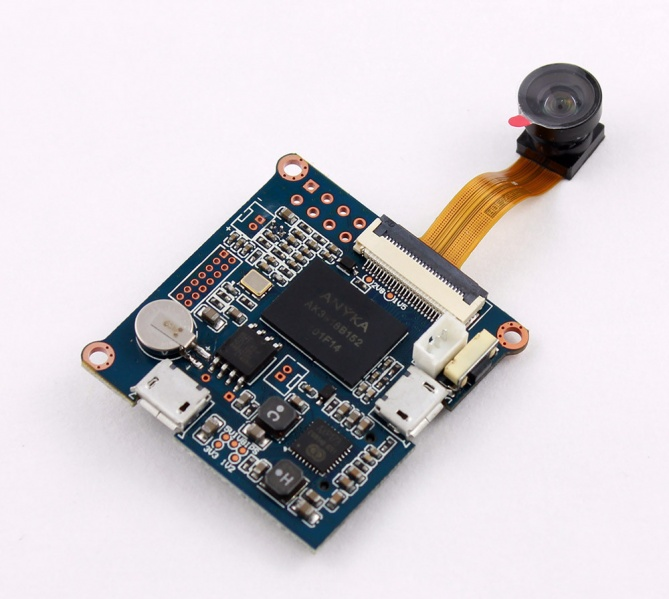 BananaPi-D1